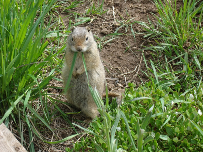 This is a photo of a gopher that I encountered on my trip to Colorado. This is most likely a Wyoming Ground Squirrel (Urocitellus elegans), as indicated by its coloration coupled with occurrence in Colorado.